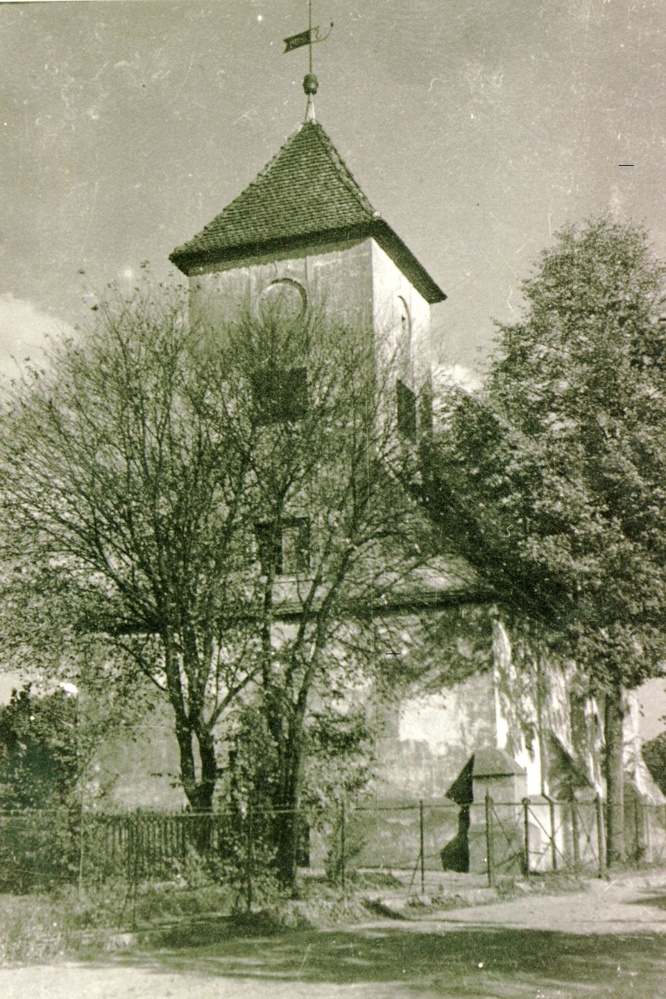 Old church of Hathenow (befor 1945)